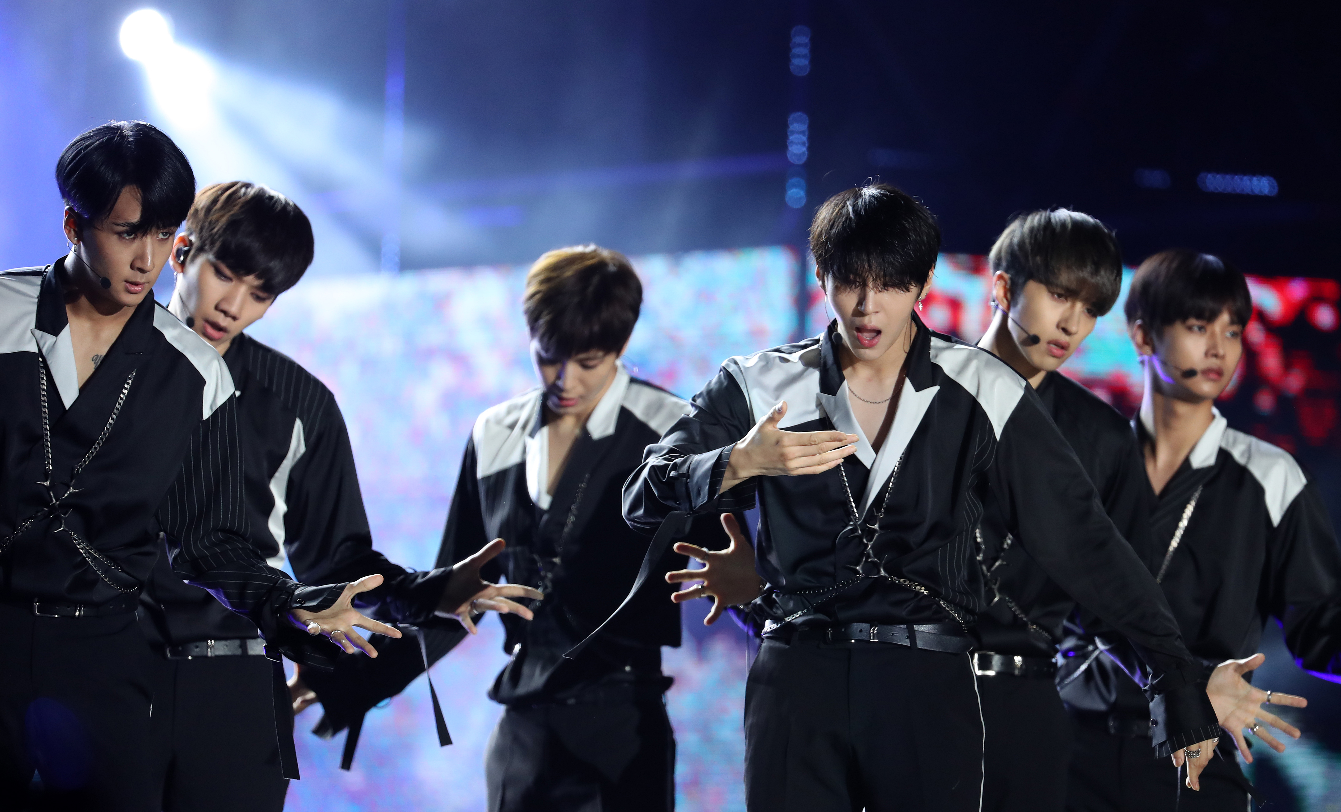 Korea Sale Festa Opening Ceremony VIXX September 30, 2016 Yeongdongdae-ro, Gangnam-gu, Seoul Ministry of Culture, Sports and Tourism Korean Culture and Information Service ( Official Photographer : Jeon Han